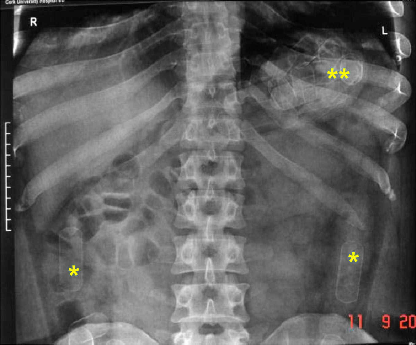 Radiograph of the abdominal area of a drug courier. Multiple capsules of drugs are visible in the stomach (yellow markers **) and the intestines (*). The man swallowed 38 capsules of cocaine.